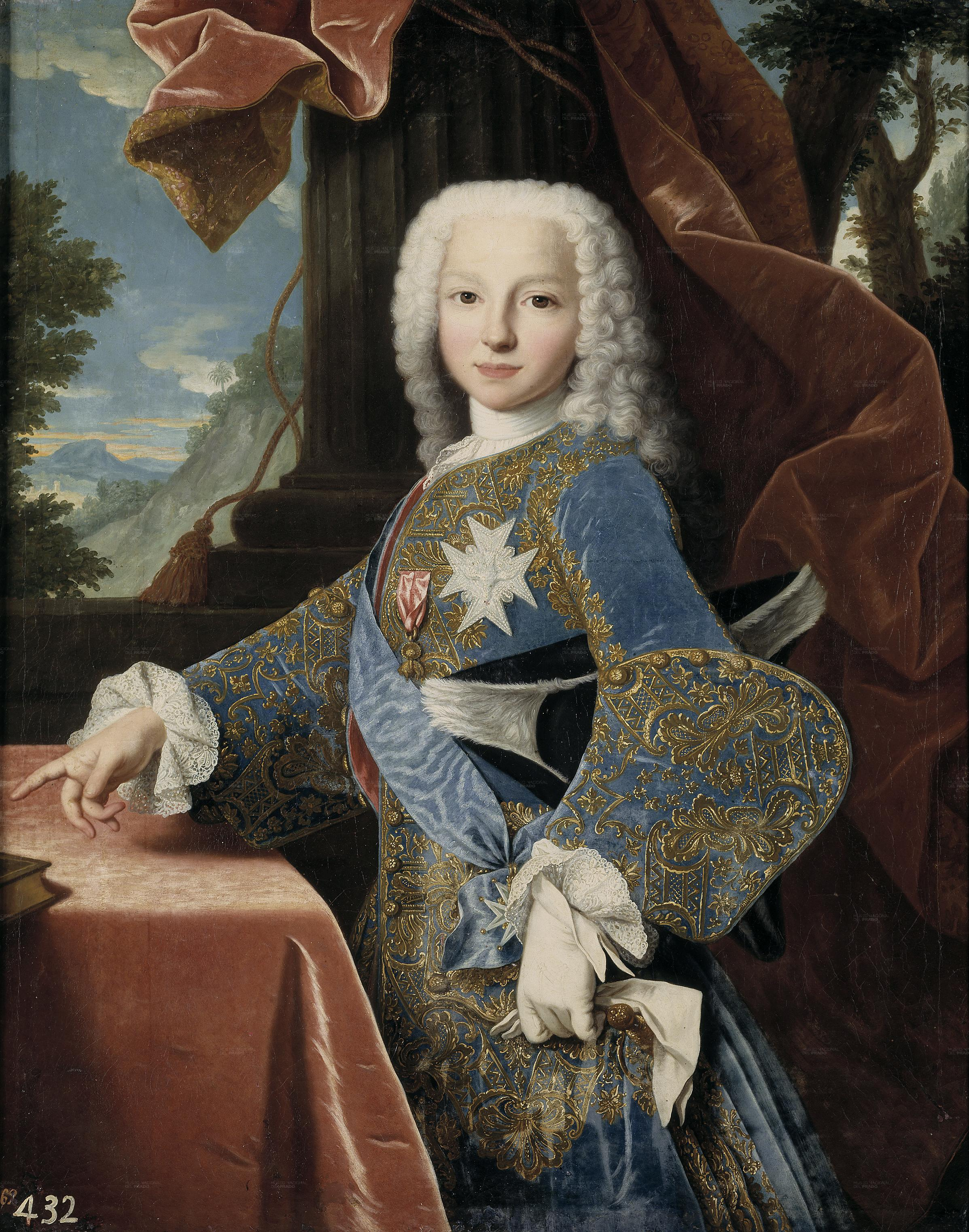 Philip of Spain, Duke of Parma, Plasencia and Guastalla (1720-1765) was duke of Parma from 1748 to 1765. He founded the house of Bourbon-Parma (a.k.a the Bourbons of Parma).